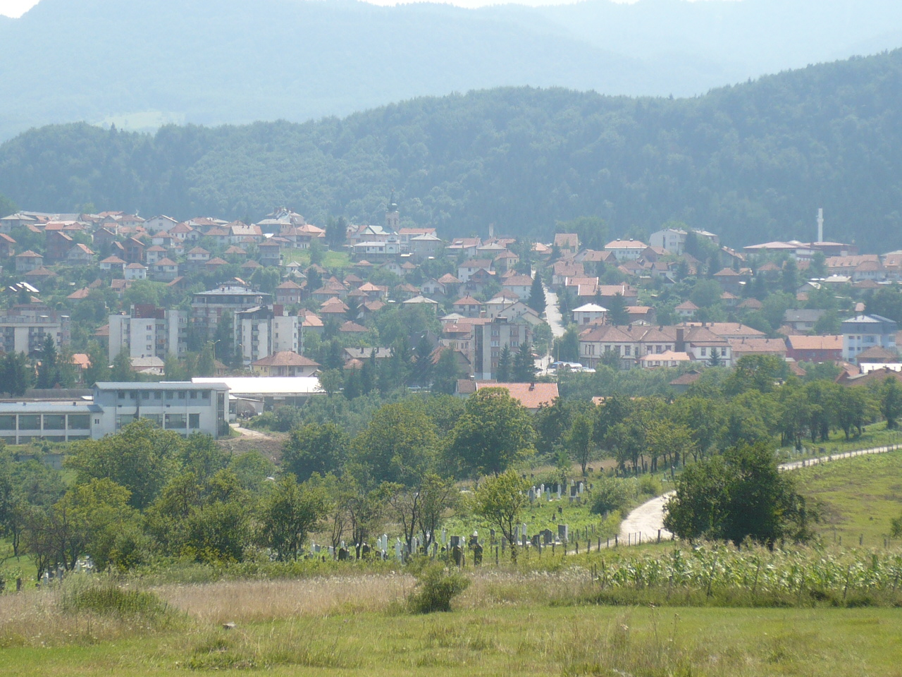 Vlasenica Centar